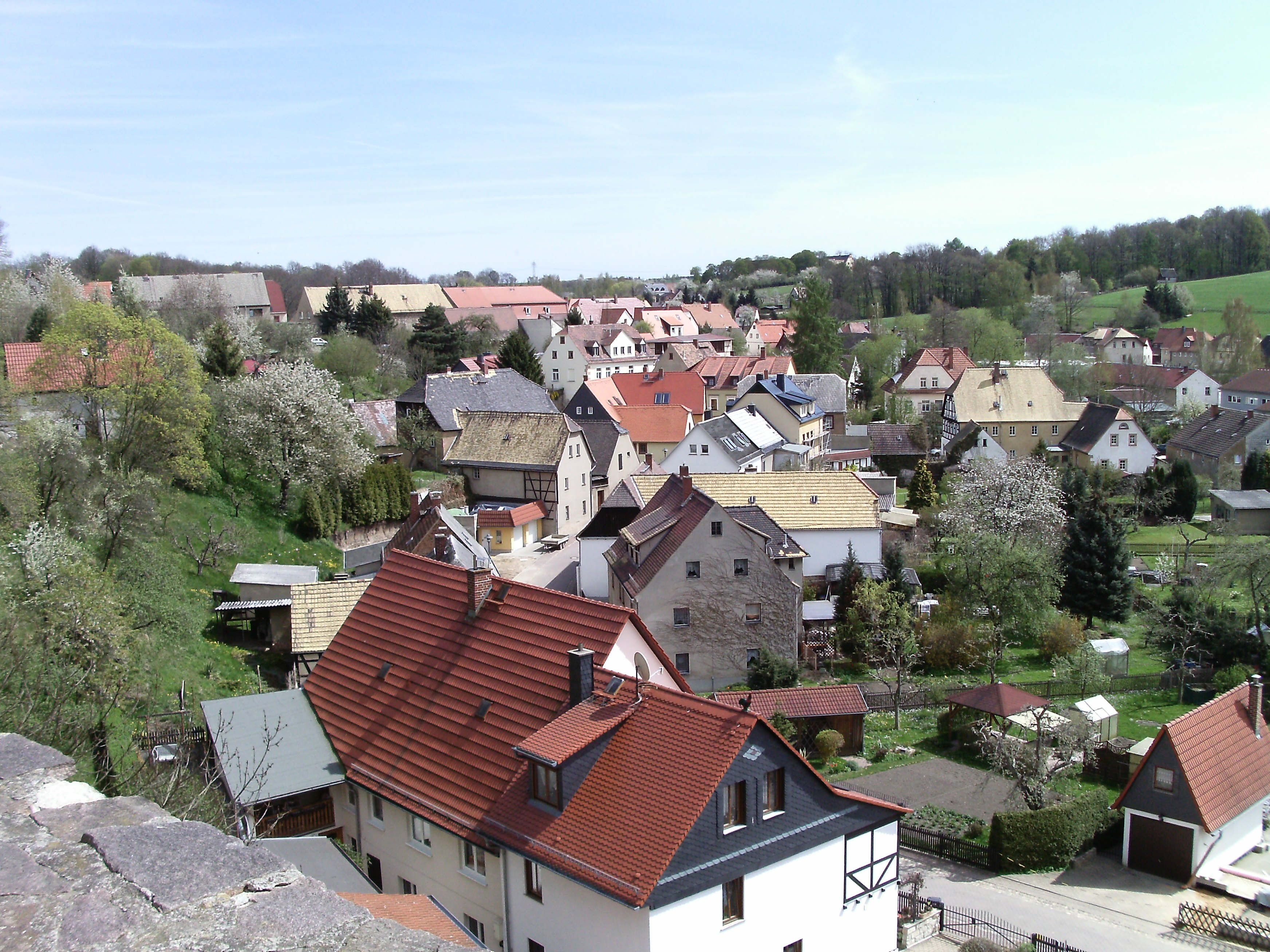 View of the town of Kohren-Sahlis (Leipzig district, Saxony) from the castle